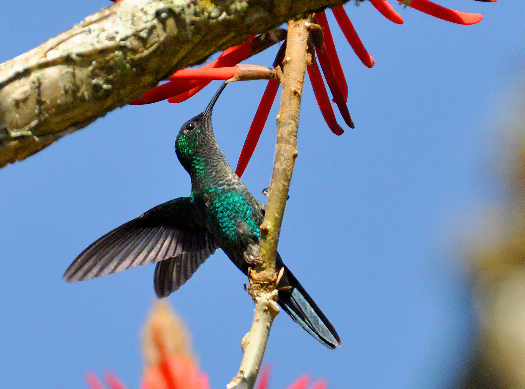 Thalurania glaucopis male photographed in Rio Grande do Sul, Brazil, in July 2010.